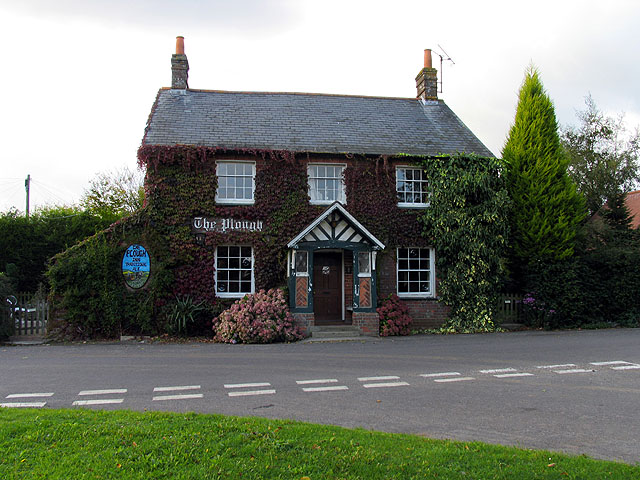 The Plough (marked on the 1:50 000 OS map) is at the intersection in the village of Ashmansworth.